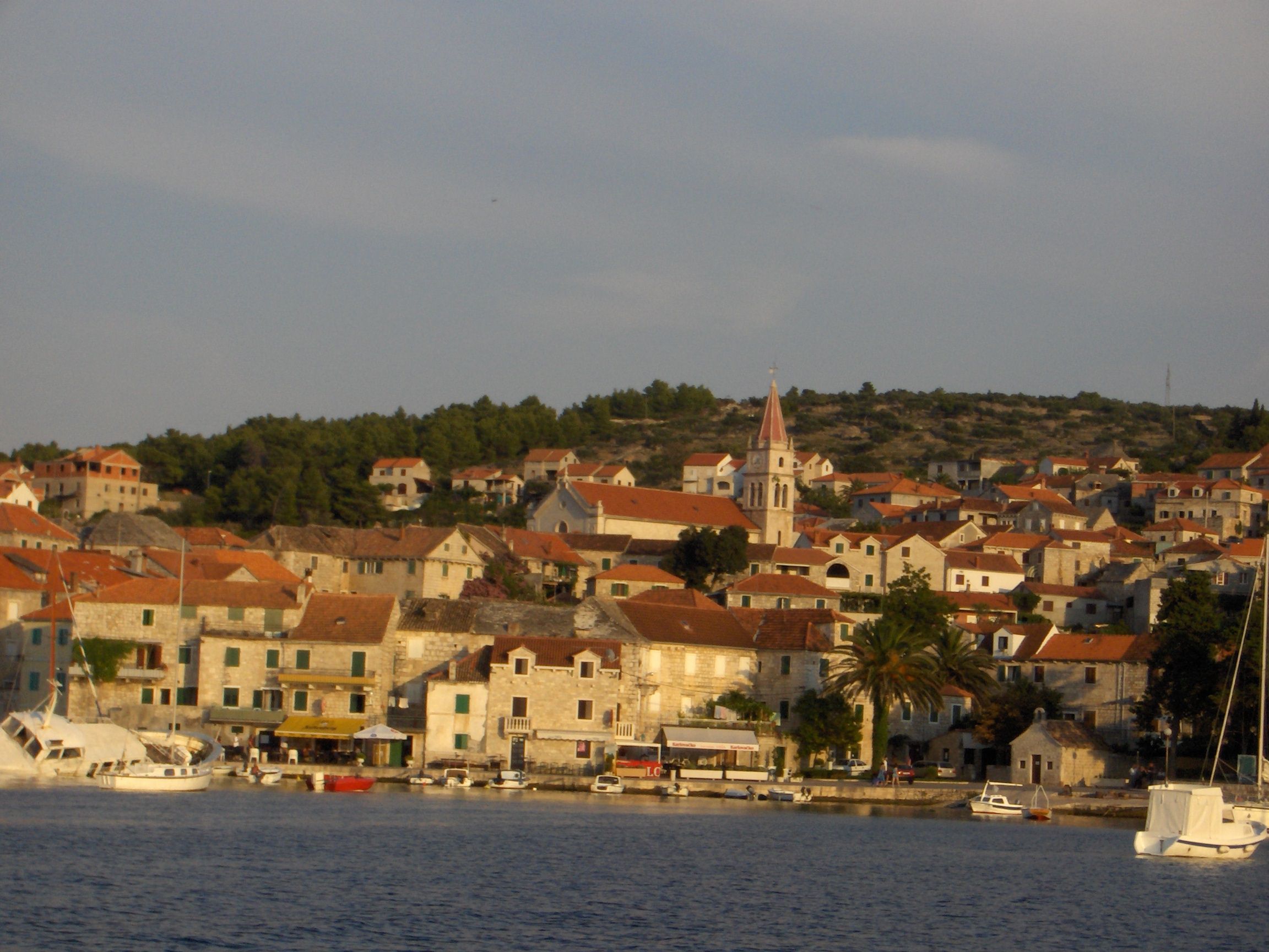 Photo of port in Postira (Island of Brač) with church.